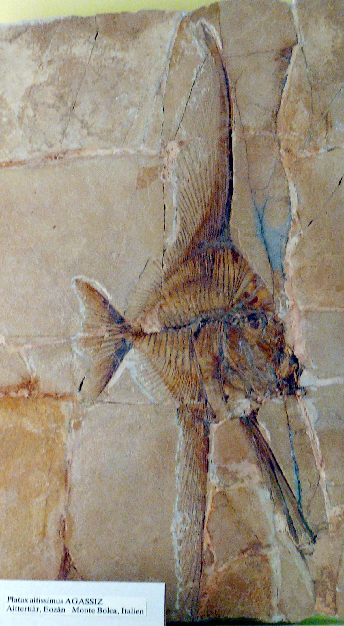 Platax altissimus from the Eocene, Monte Bolca, Italy